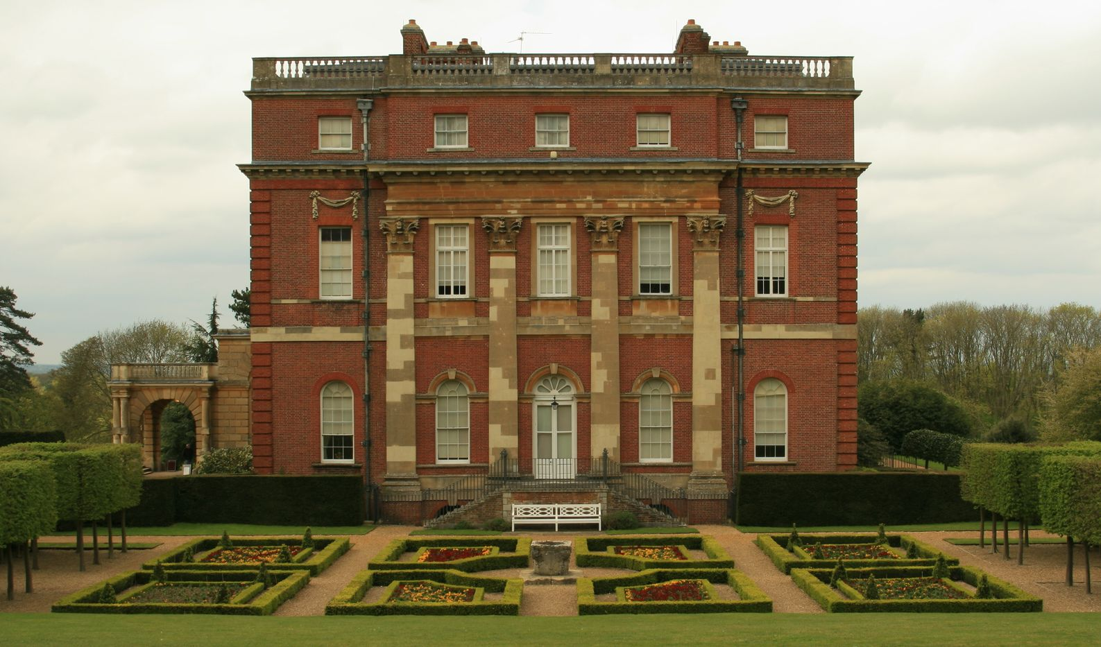 Clandon House in Surrey, England, designed by Venetian architect Giacomo Leoni